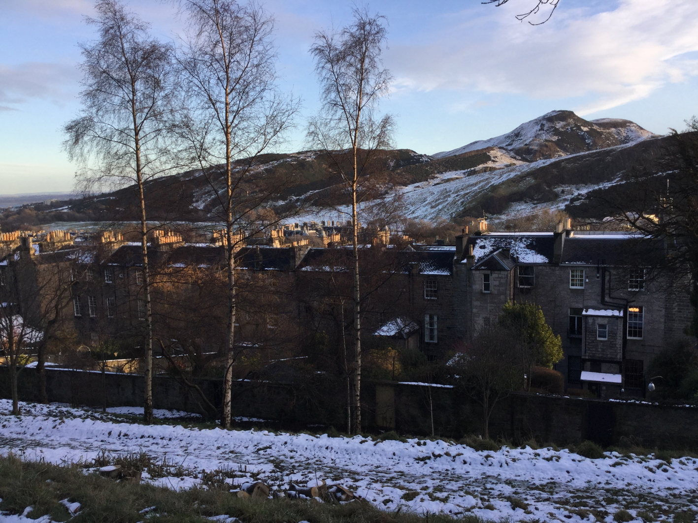 View from Regents Gardens, over Regent Terrace, and up to Arthur's Seat